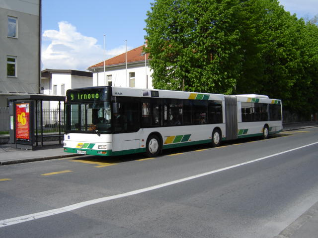 Author: LucasSi (myself). A low-floor city bus in Ljubljana.